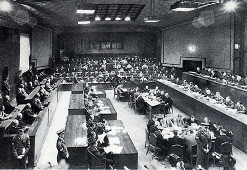 Court Chamber, International Military Tribunal for the Far East Ichigaya Court